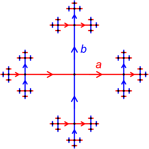 The Cayley graph for the free group on two generators.